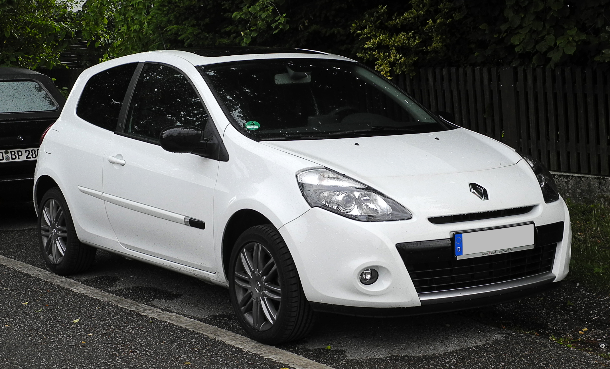 Renault Clio 20th (III, Facelift)